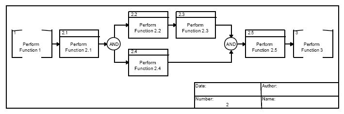 8 FFBD Function 0 Illustration